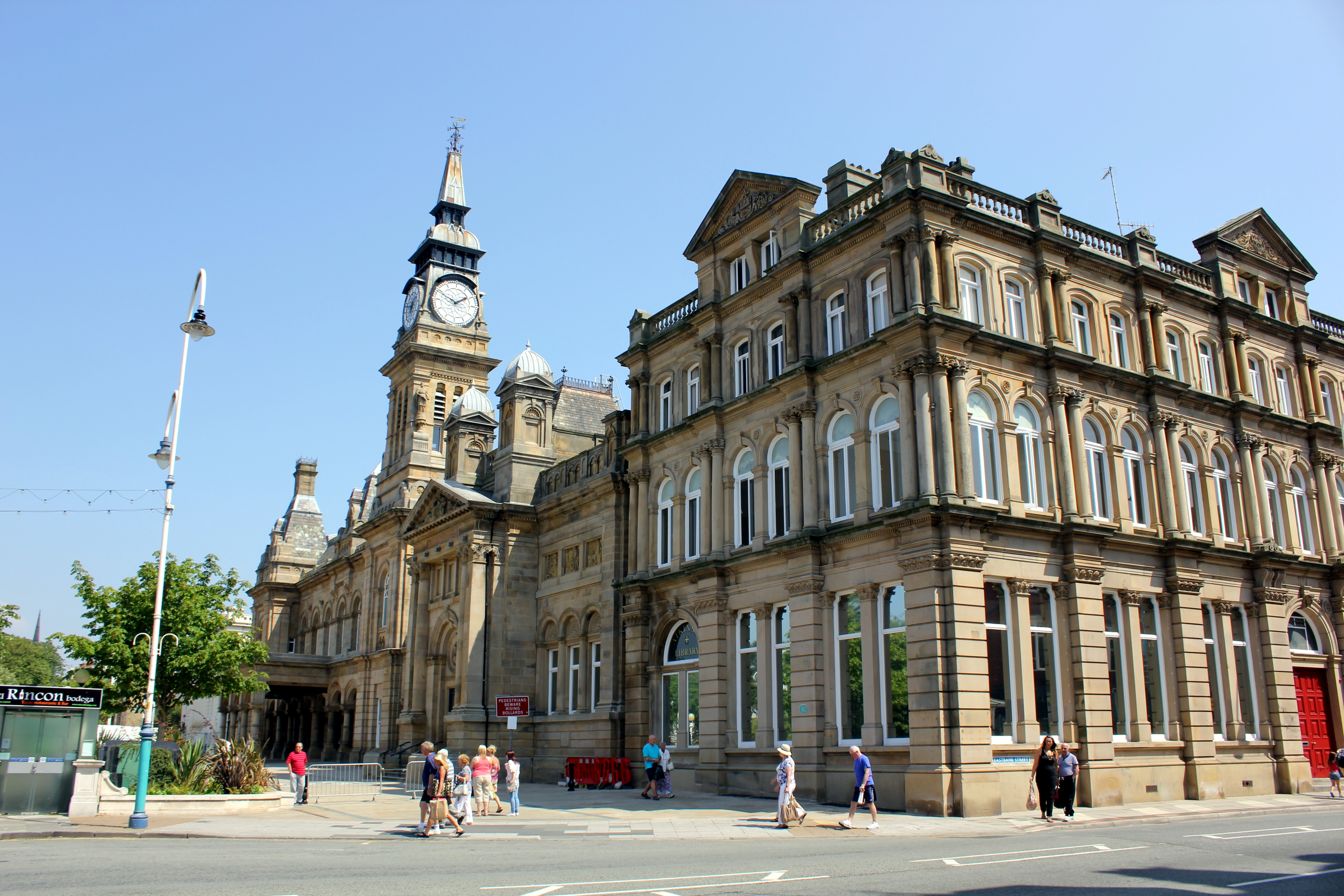 Photograph of the Atkinson Art Gallery and Library, Southport, Merseyside